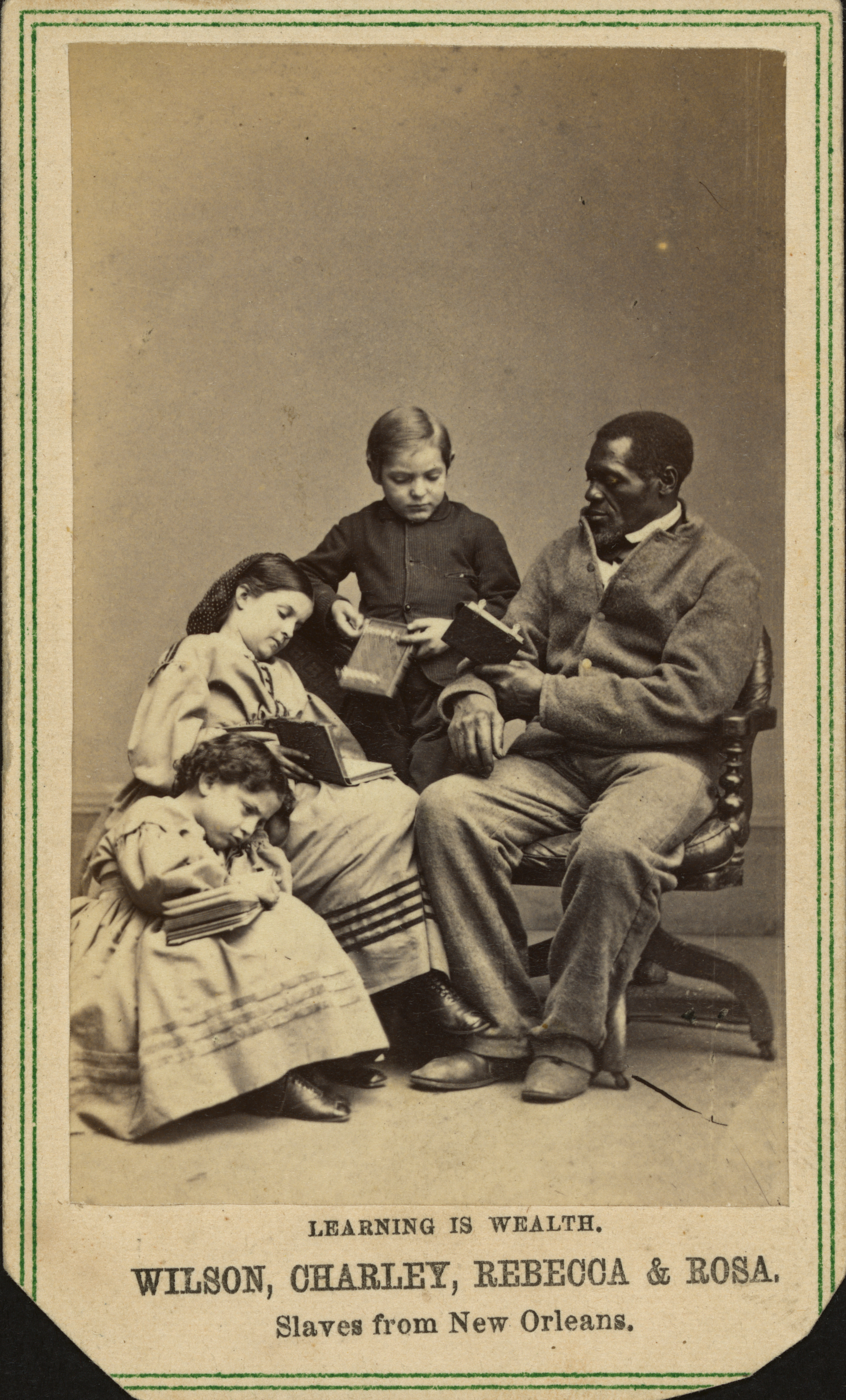 "Learning is wealth. Wilson, Charley, Rebecca, and Rosa. Slaves from New Orleans". Photocard by Chas. Paxson, photographer, New York, 1864. Text on back: "Entered, according to act of Congress, in the year 1864, by S. Tackaberry, in the Clerk's Office of the District Court of the United States, for the Southern District of New York" "The nett proceeds from the sale of these photographs will be devoted to the education of colored people in the Department of the Gulf, now under the command of Maj. Gen'l Banks" Notes: The four people shown were from a group of slaves emancipated in Union occupied New Orleans under orders of General Nathanial Banks. 8 were brought to New York City by Colonel George H. Hanks, and put on tour to generate sympathy for emancipation and raise funds for the education of freedmen. This photo is was one of a series sold in this fund raising effort. Half of the former slaves brought north in this effort were very light skinned with Caucasian features, under the presumption that some Whites would be more likely to sympathize with people of White appearance than of more obviously African ancestry. Links with further details: Mirror of Race: “As White As Their Masters”, Quakers & Slavery: "White Slaves"